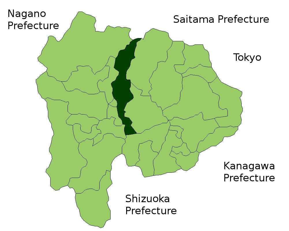 Location Map of Kofu in Yamanashi Prefecture, Japan